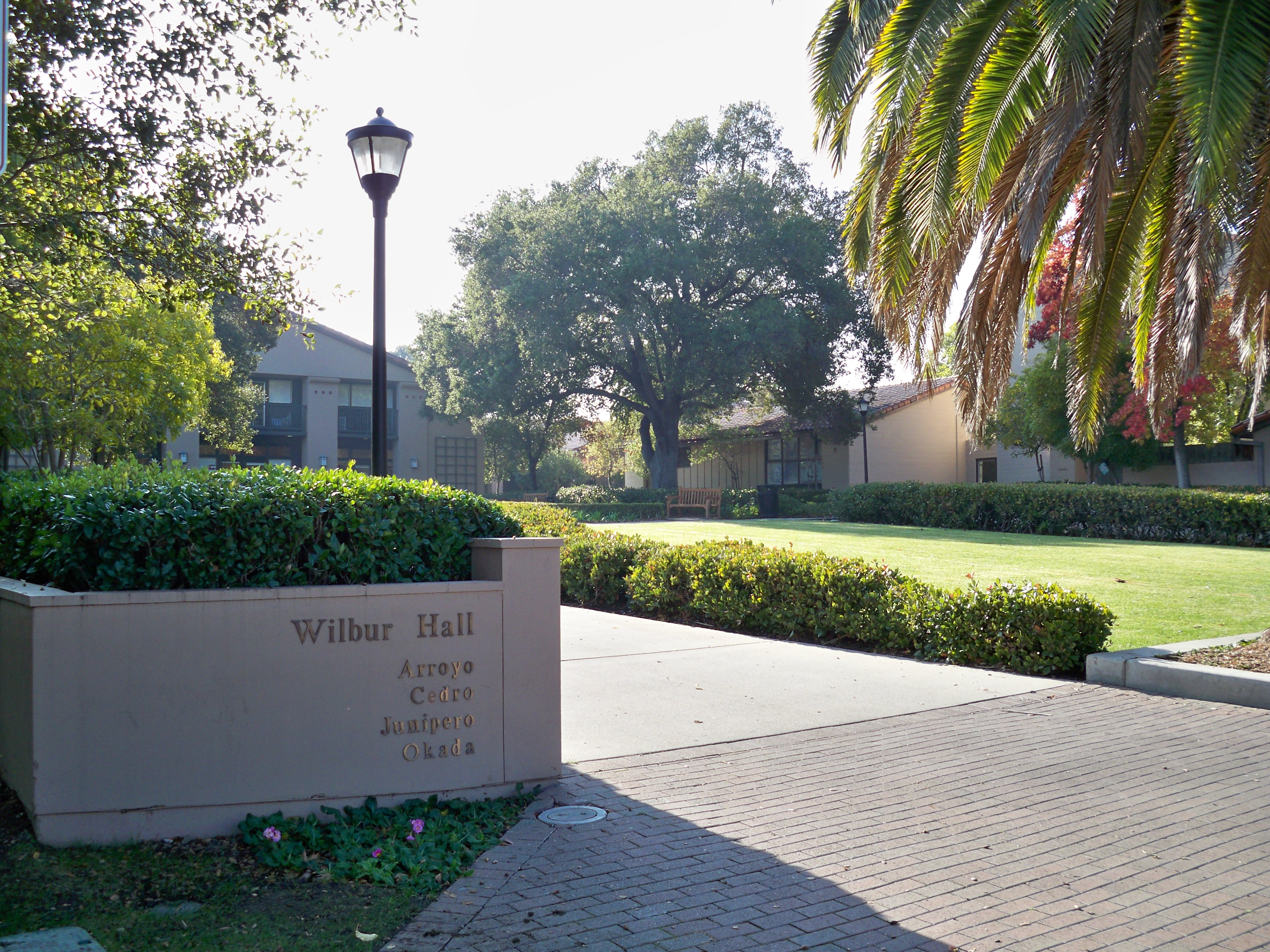 Wilbur Hall, a student residence on the campus of Stanford University. Named in honor of the university's third president, Ray Lyman Wilbur.